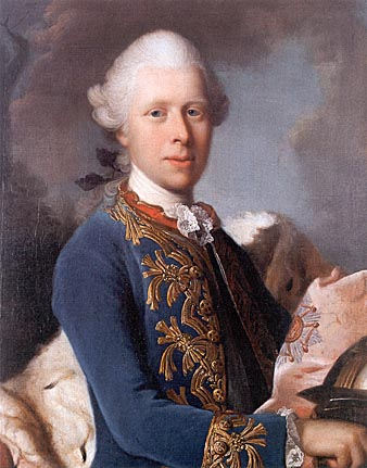 Portrait of Ernest II of Sachsen-Gotha-Altenburg (1745-1804)